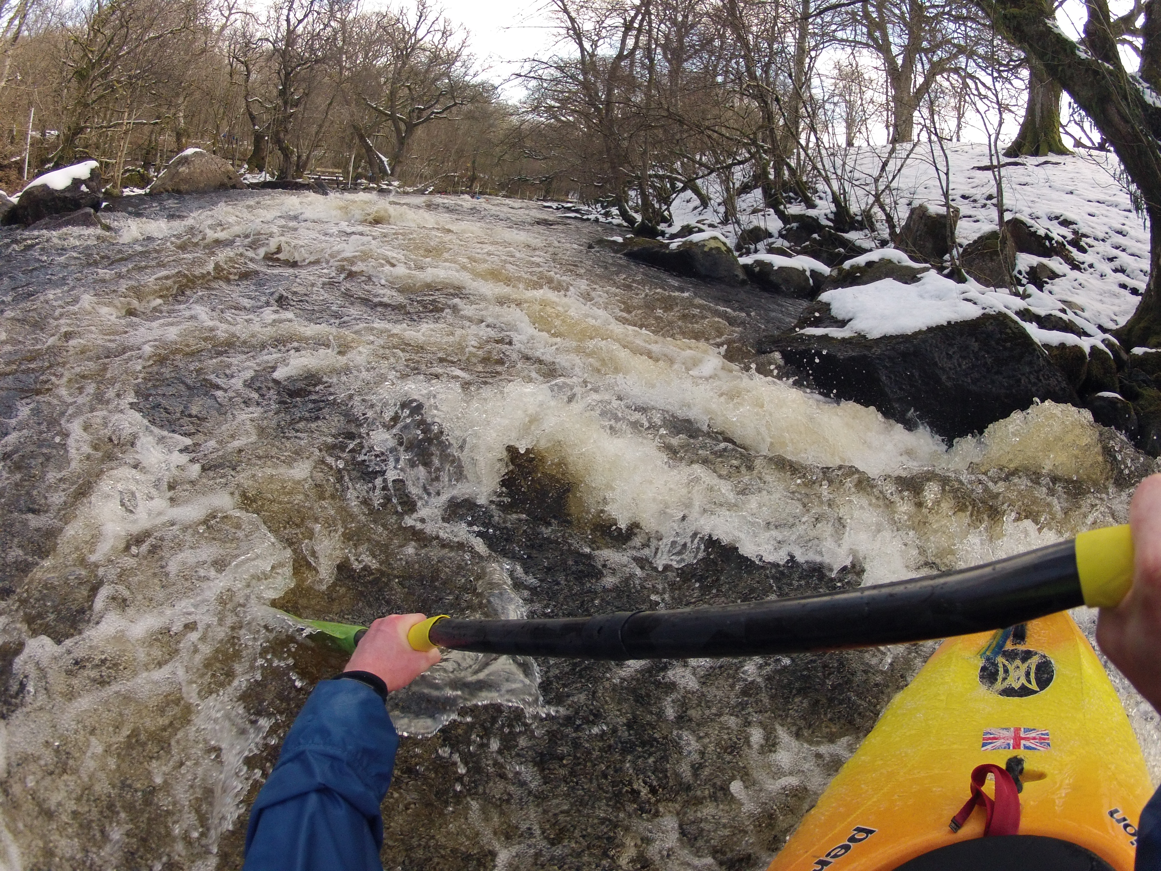 A first person perspective of the Upper Tryweryn 'Graveyard' section in winter.